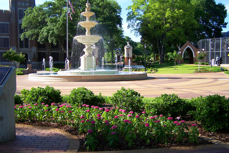 The Laura M. Harrison Fountain and Plaza, located in front of Bibb Graves Hall, serves as the main entranceway for the University of North Alabama, in Florence.